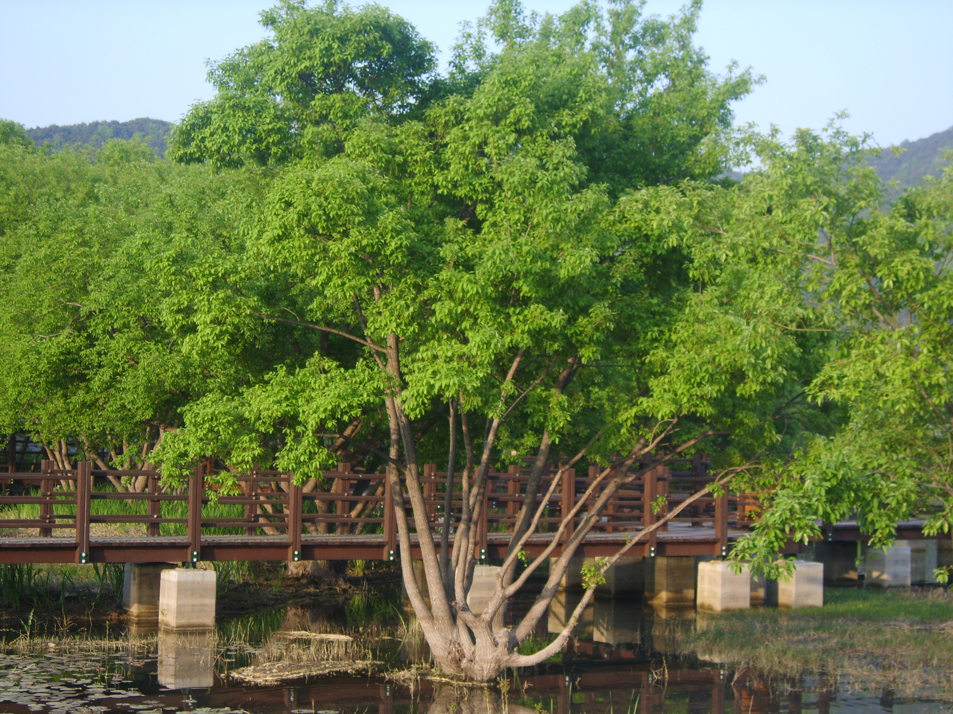 Salix chaenomeloides in Hampyung, Korea. 함평 자연생태공원에 사는 왕버들.